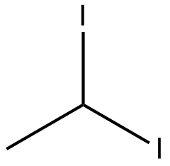 Skeleton model of 1,1-diiodoethane created by ChemBioDraw